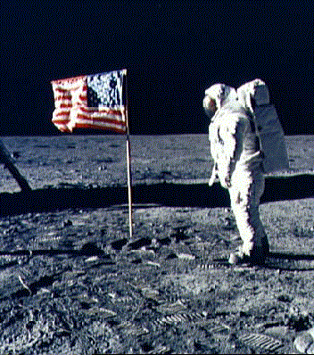 image for S:An Annotated Bibliography of the Apollo Program